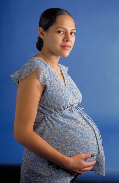 Pregnant woman at a WIC clinic (Special Supplemental Nutrition Program for Women, Infants, and Children) in Virginia. This image of a pregnant woman is facing right, just as in the original image. This image satisfies the rule at English Wikipedia, which says "images should not be reversed" for mere layout preferences.